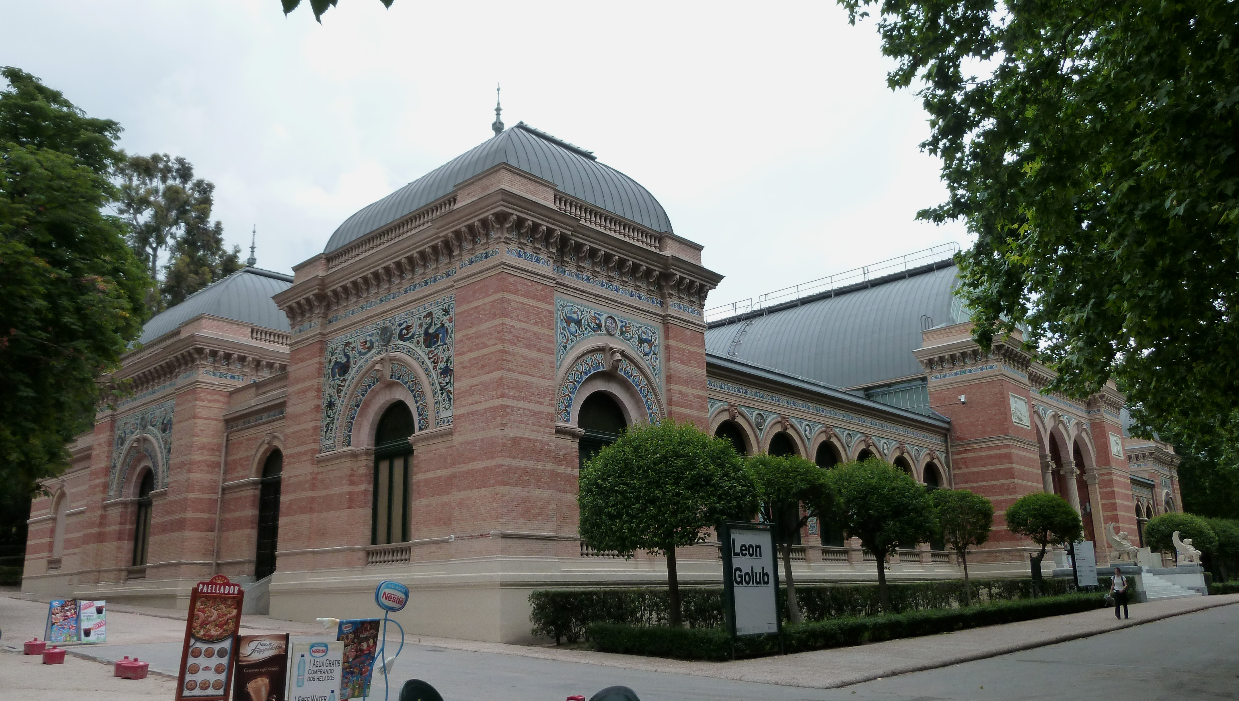 View of Palacio de Velázquez in Buen Retiro Park in Madrid (Spain).